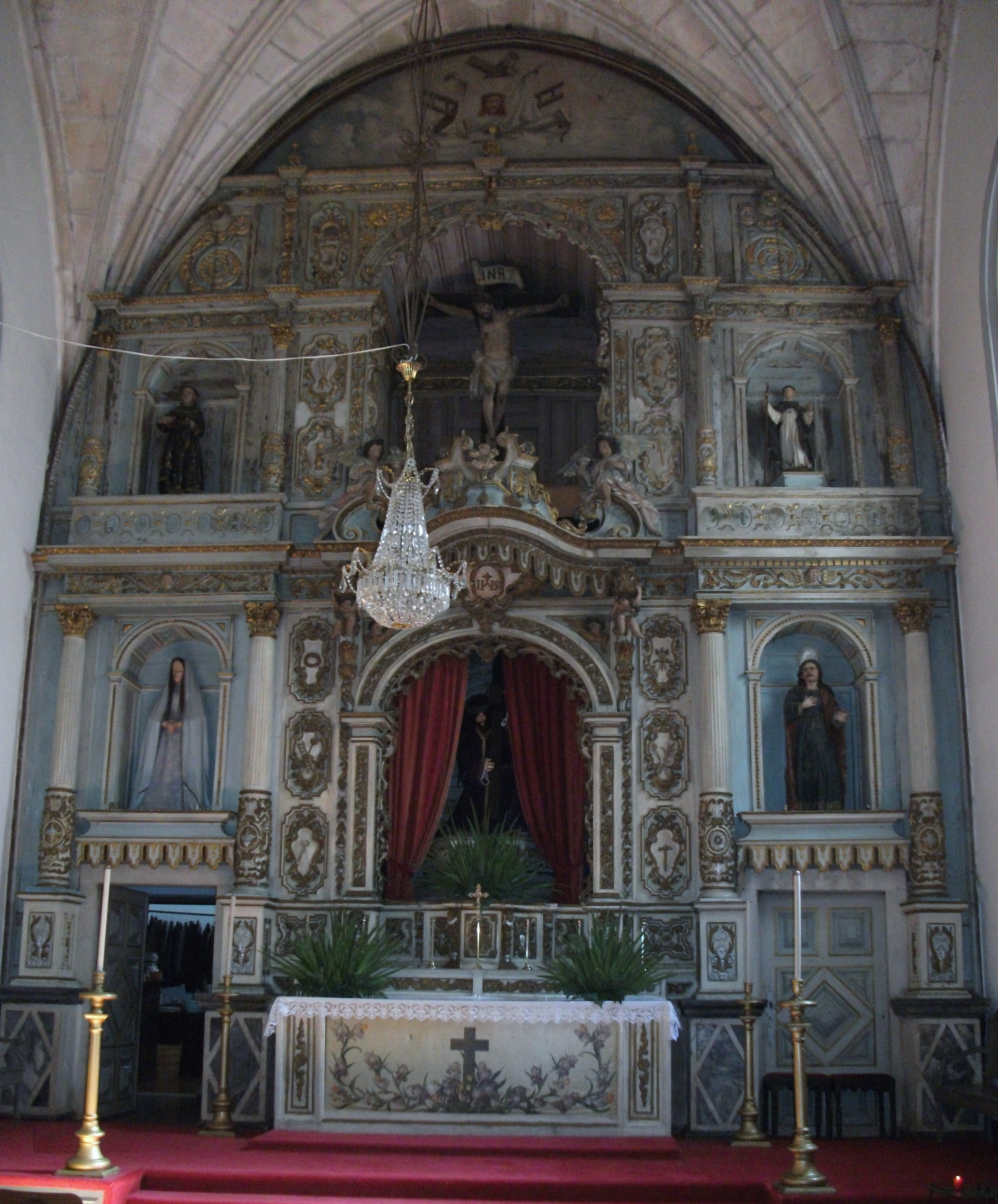 Chapel of D. Fradique de Portugal inside San Francis Church in Estremoz.